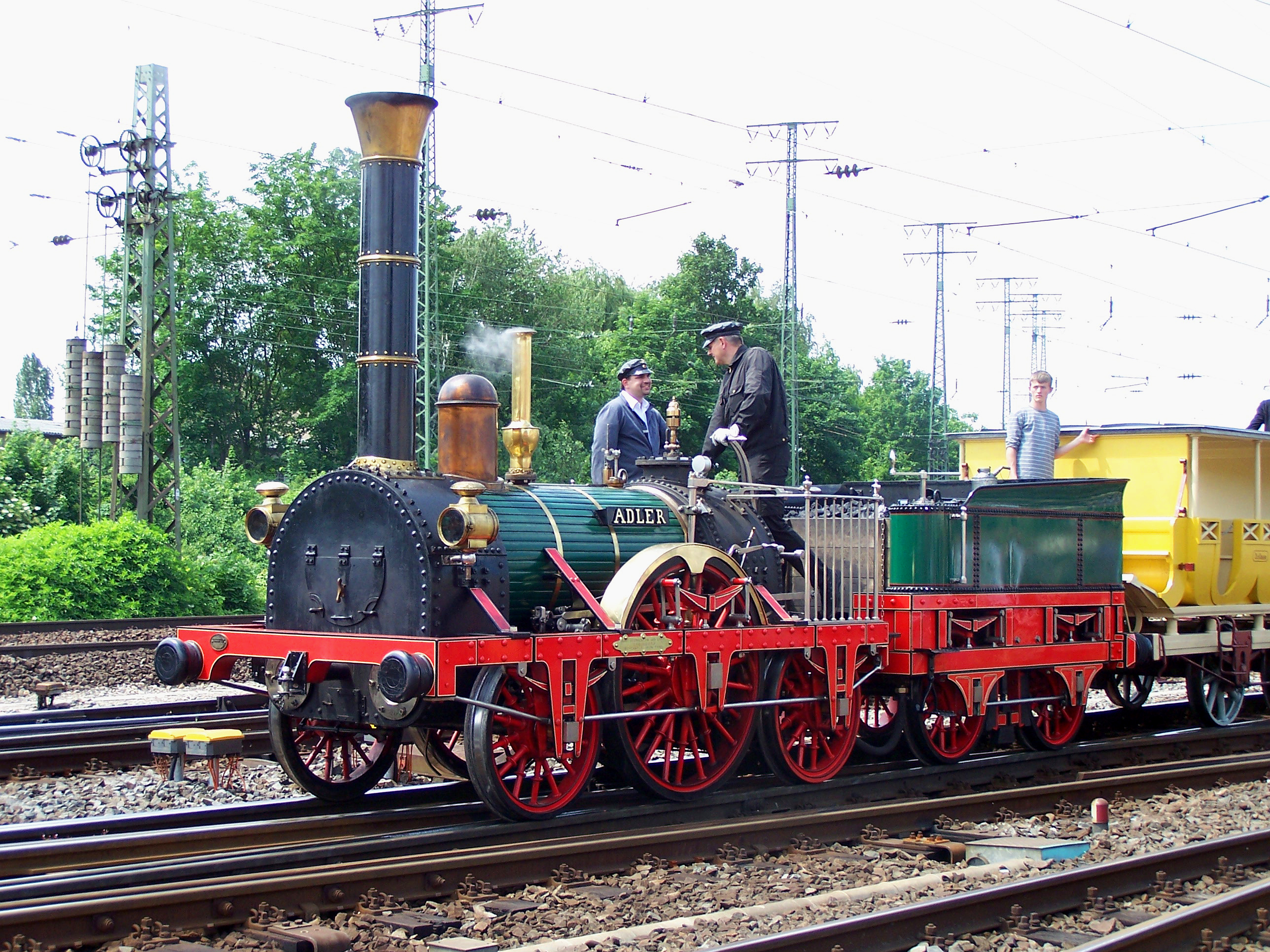 reconstruction of the first steam locomotive in Germany Adler (reproduction of 1935, rebuilt 2007), at the DB Museum in Koblenz-Lützel, a local branch of the Transport Museum in Nuremberg, Juni 2012